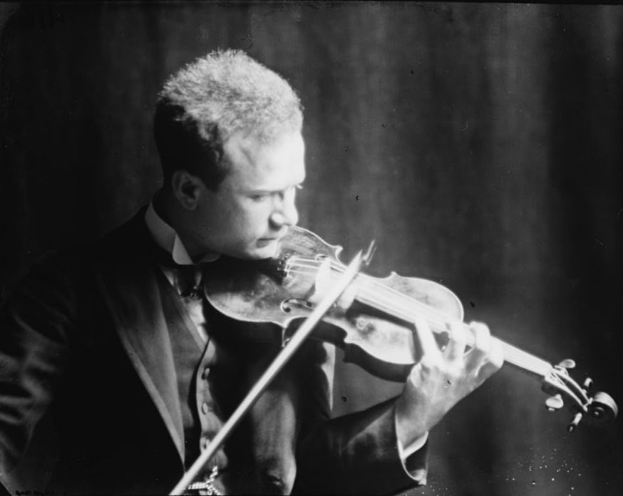 Title Portrait photograph of Mischa Elman Contributor Names Genthe, Arnold, 1869-1942, photographer Created / Published between 1915 and 1942; from a negative taken 1915 Apr. 15. Subject Headings - Elman, Mischa,--1891-1967--Performances. - Elman, Mischa,--1891-1967. - Musicians. - Violins. Format Headings Lantern slides. Portrait photographs. Notes - Title devised. - Purchase; Genthe Estate; 1942 or 1943. - ID: LC-G399-4746-E; 1911 Apr. 15 Medium 1 slide : lantern ; 4 x 5 in. or smaller. Call Number/Physical Location LC-G4085- 0416 [P&P]